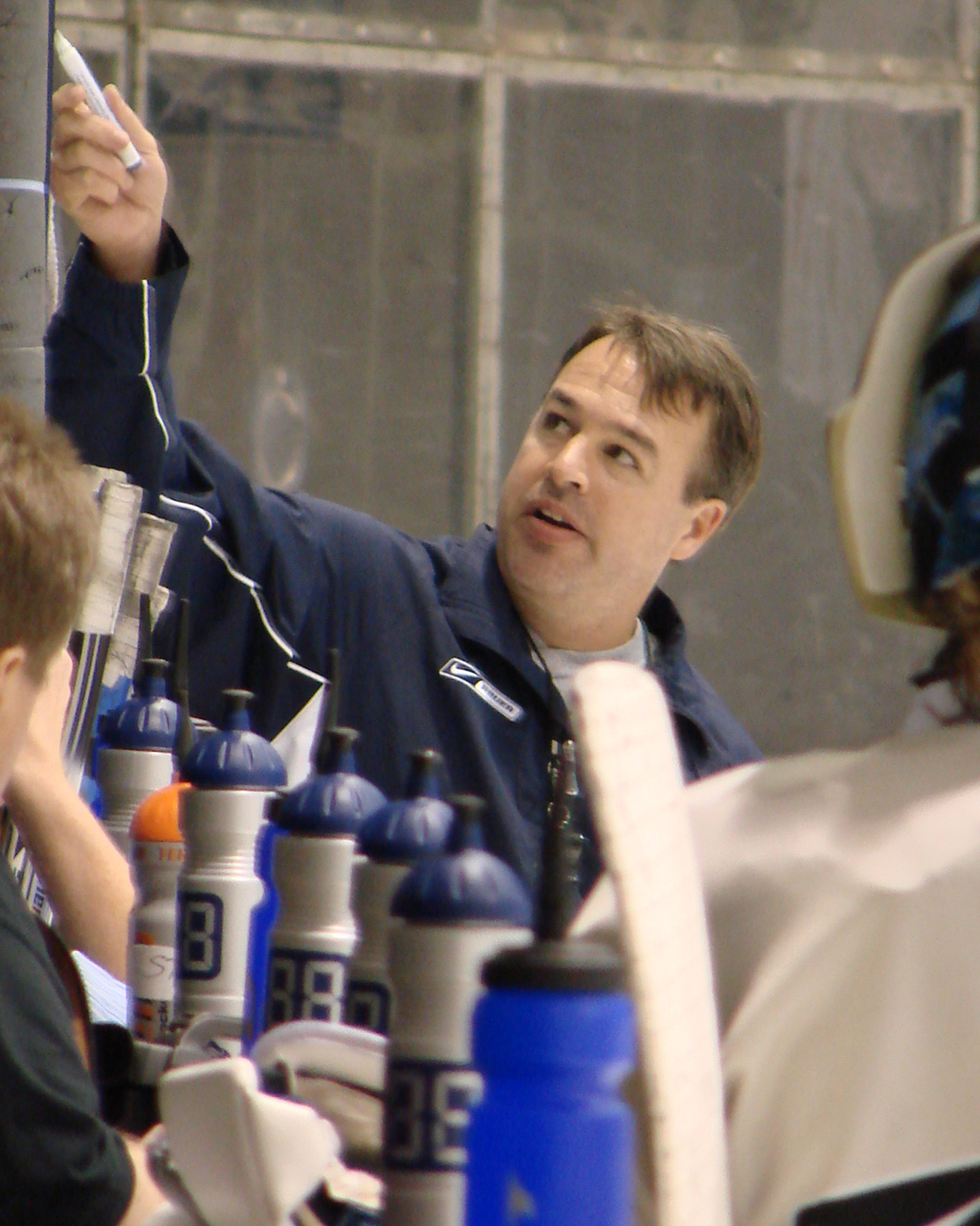 Stéphane Richer, Canadian coach of the Kassel Huskies